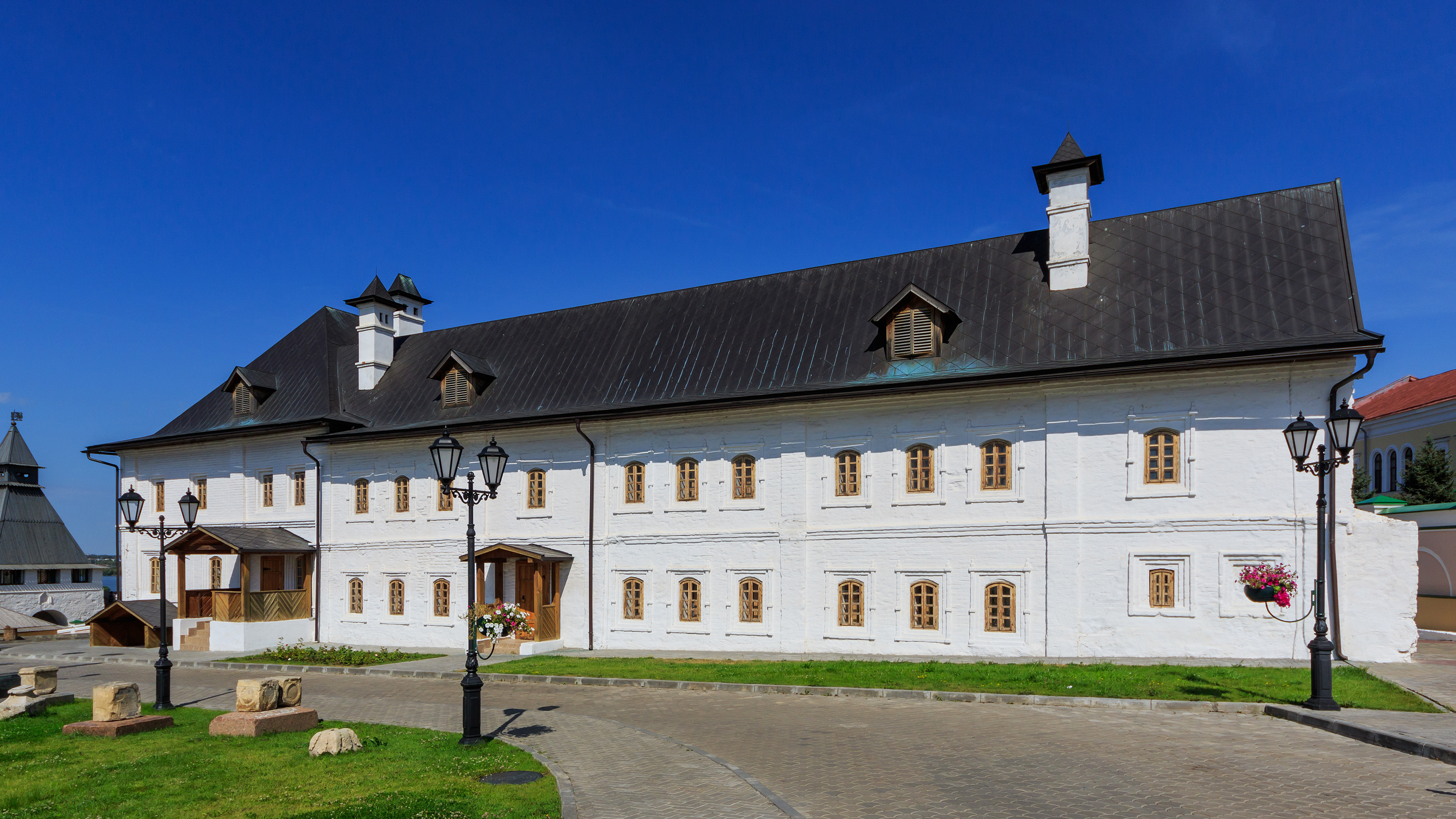 Building of former Spaso-Preobrazhensky Monastery in the Kremlin in Kazan, Russia